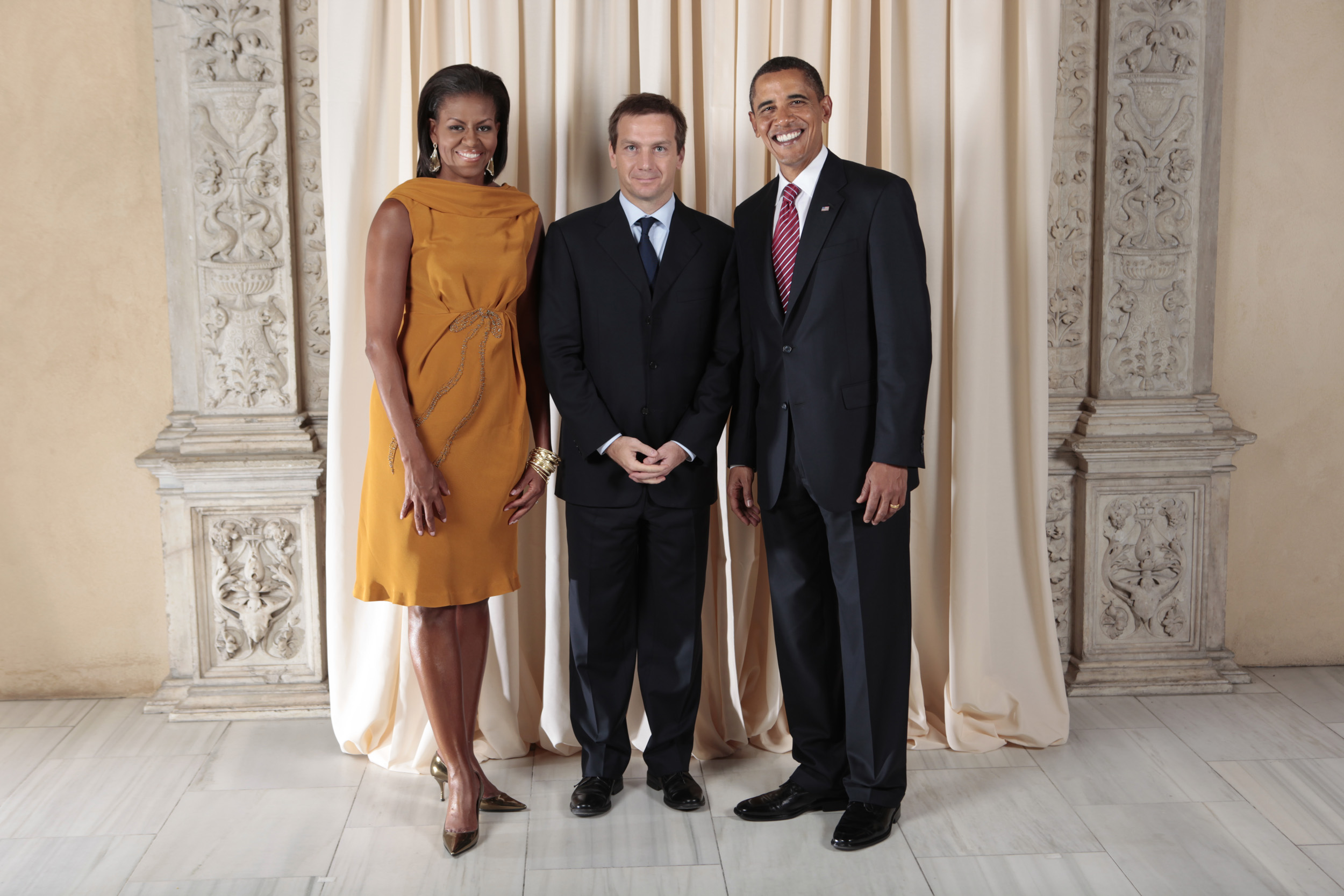 President Barack Obama and First Lady Michelle Obama pose for a photo during a reception at the Metropolitan Museum in New York with Gordon Bajnai of Hungary.